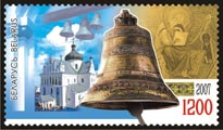 Stamp of Belarus